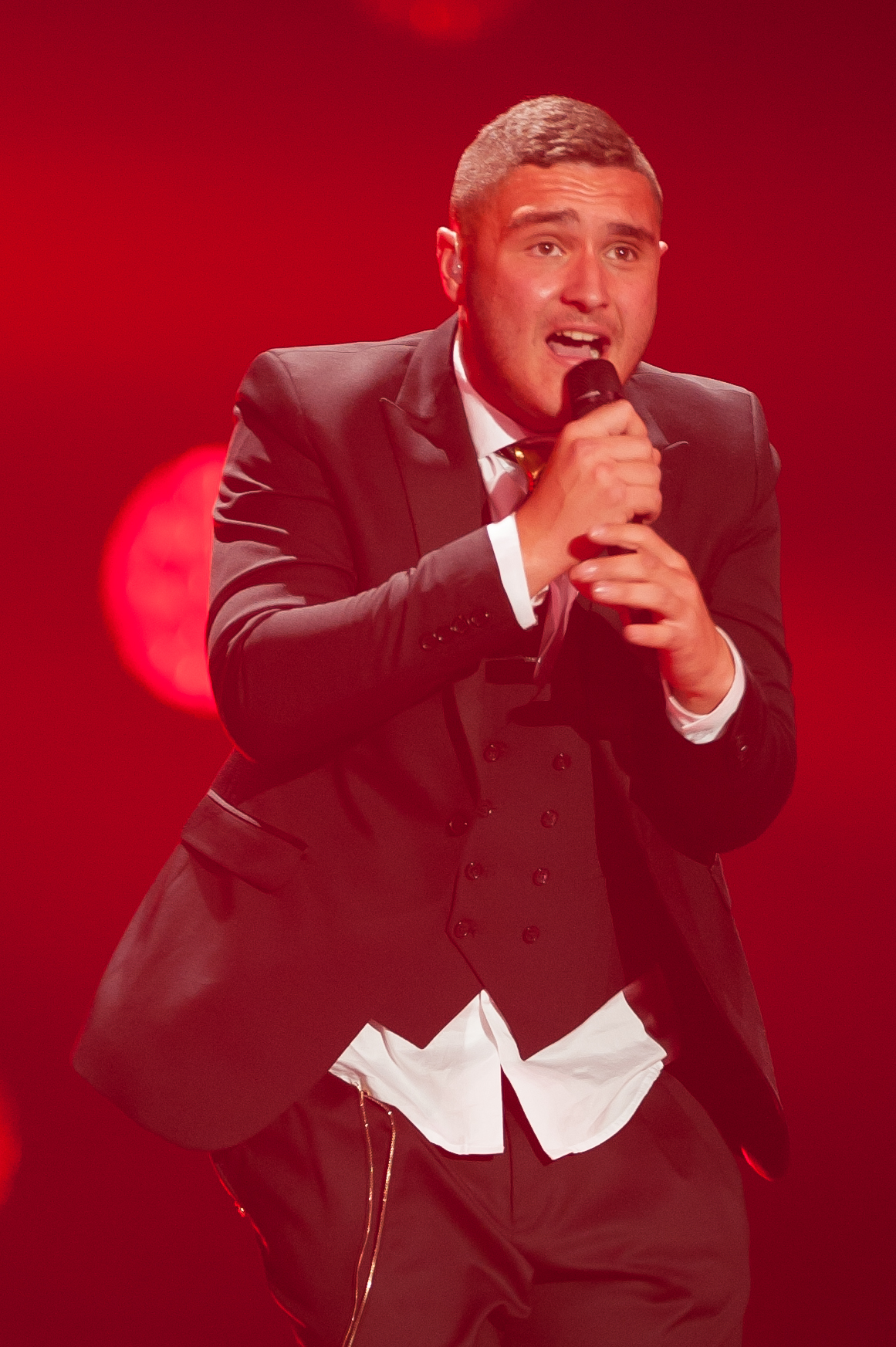 Eurovision Song Contest Vienna 2015: Nadav Guedj